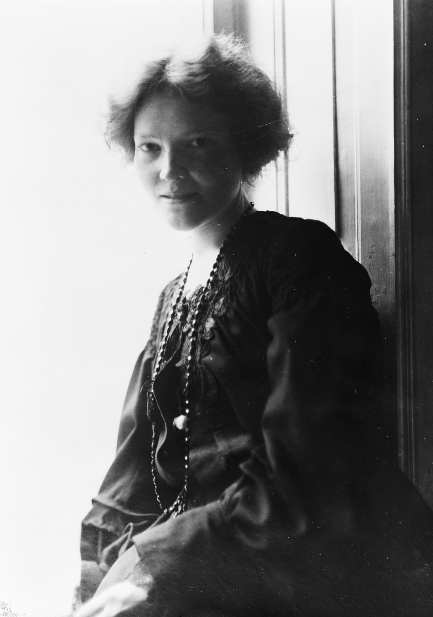 Cally Monrad, singer and actor. 1903